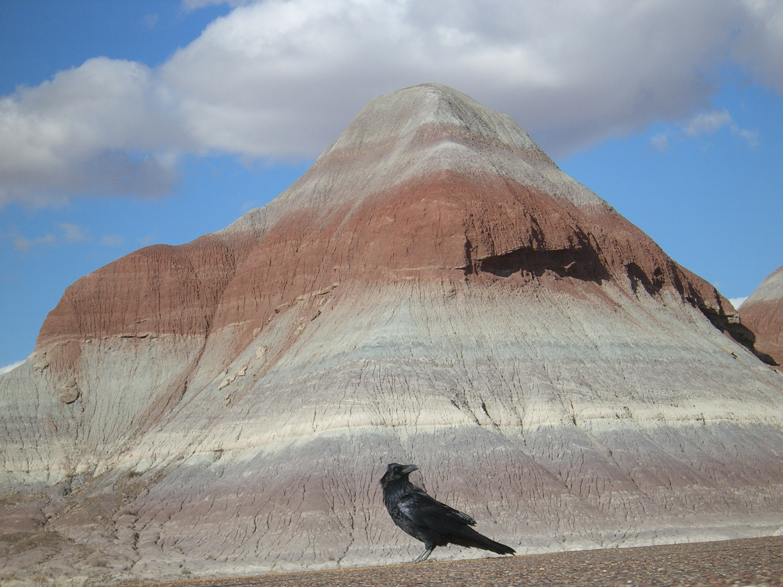 Petrified Forest National Park, Arizona, USA